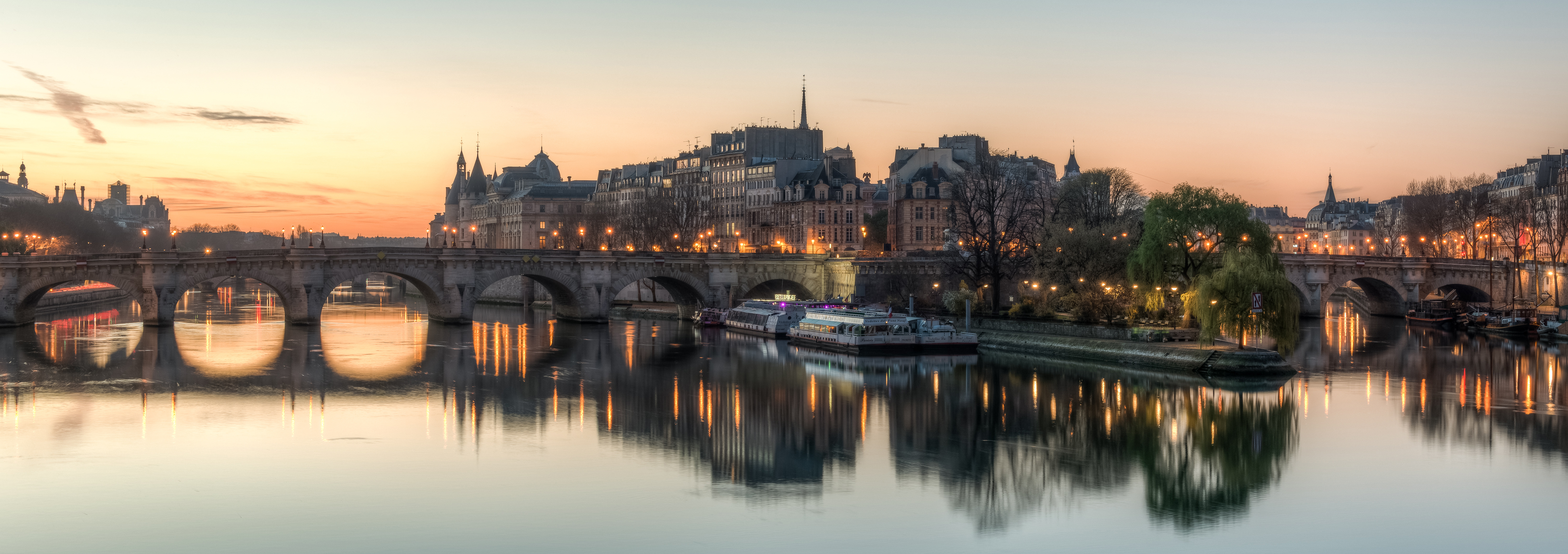 The Île de la Cité as seen from the Pont des Arts shortly before sunrise, Paris, France.